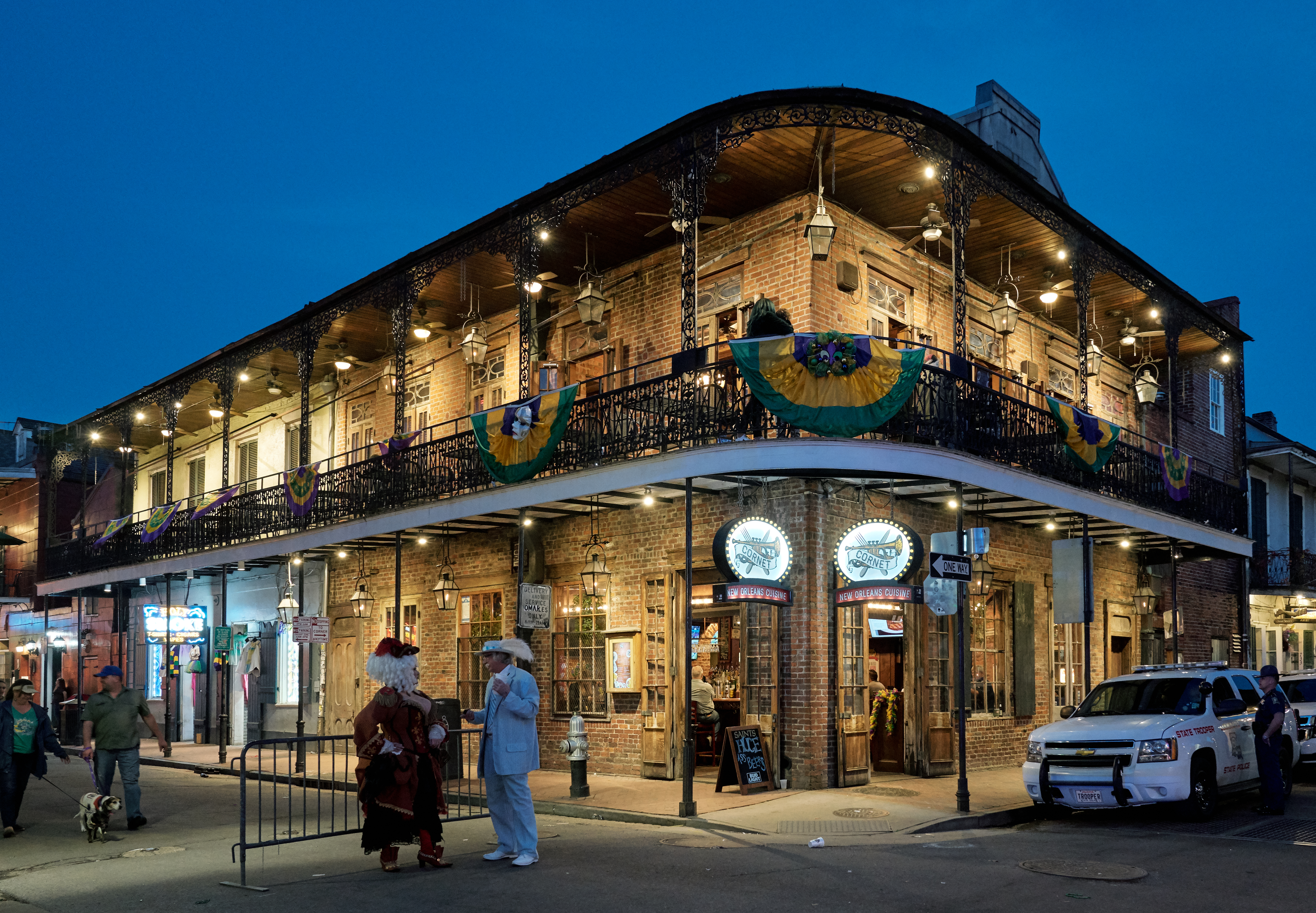 French Quarter of New Orleans